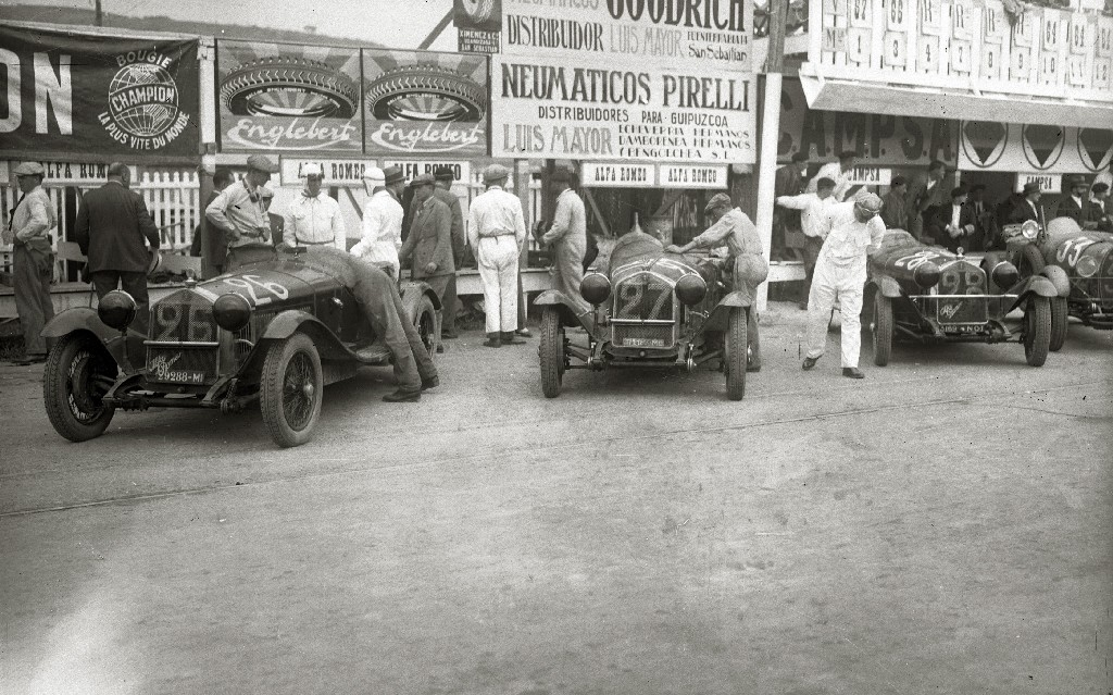 Alfa Romeo team before the start, Lasarte GP Guipúzcoa / GP Spain 1929-07-28 (Be careful, it NOT the Grand-Prix-Race GP of San-Sebastian!!!)26 Louis Rigal (F)/Goffredo Zehender (I)/Canavesi 27 Achille Varzi (I)/Banavest28 Colombo/Achille Varzi (I)